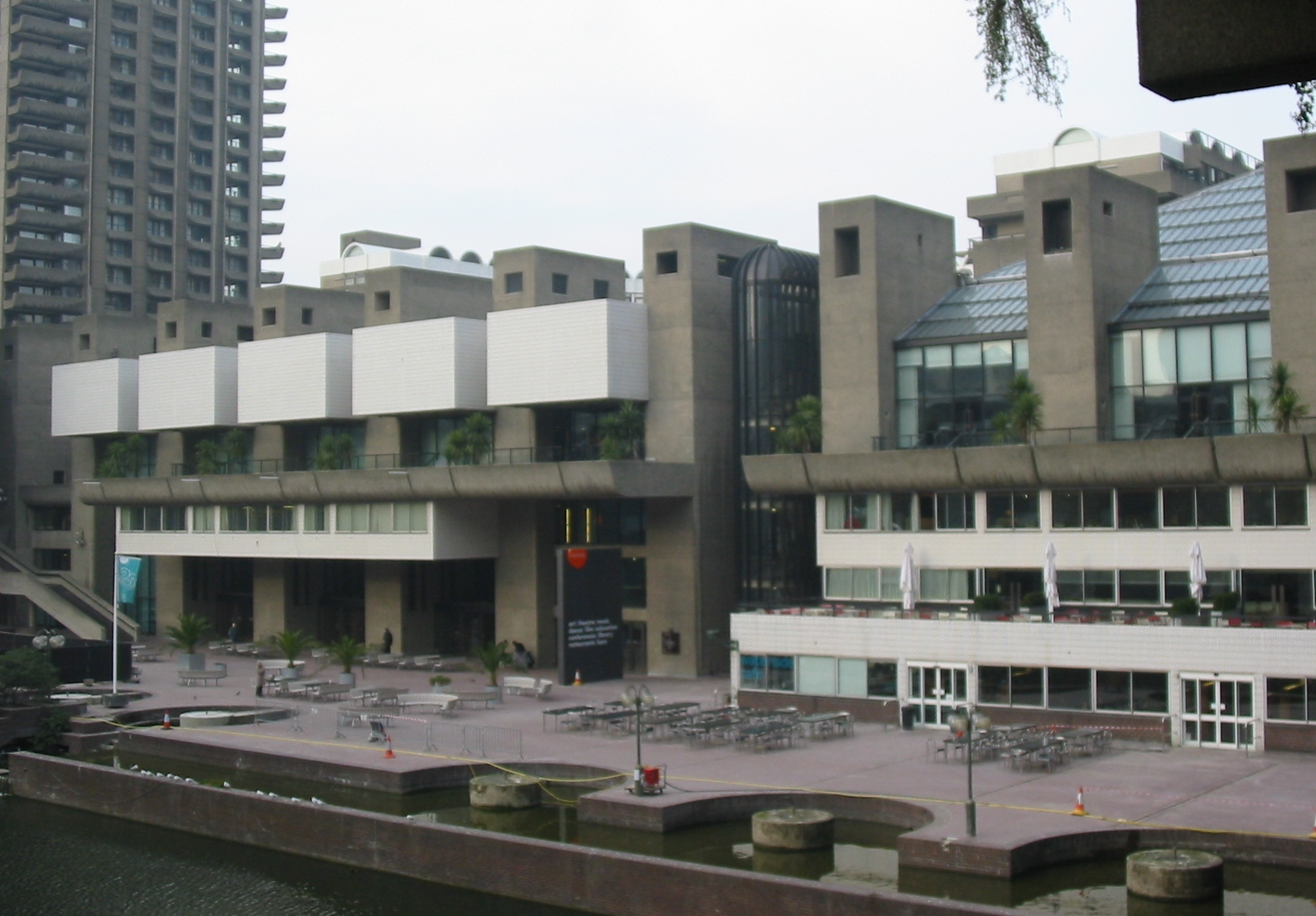 London